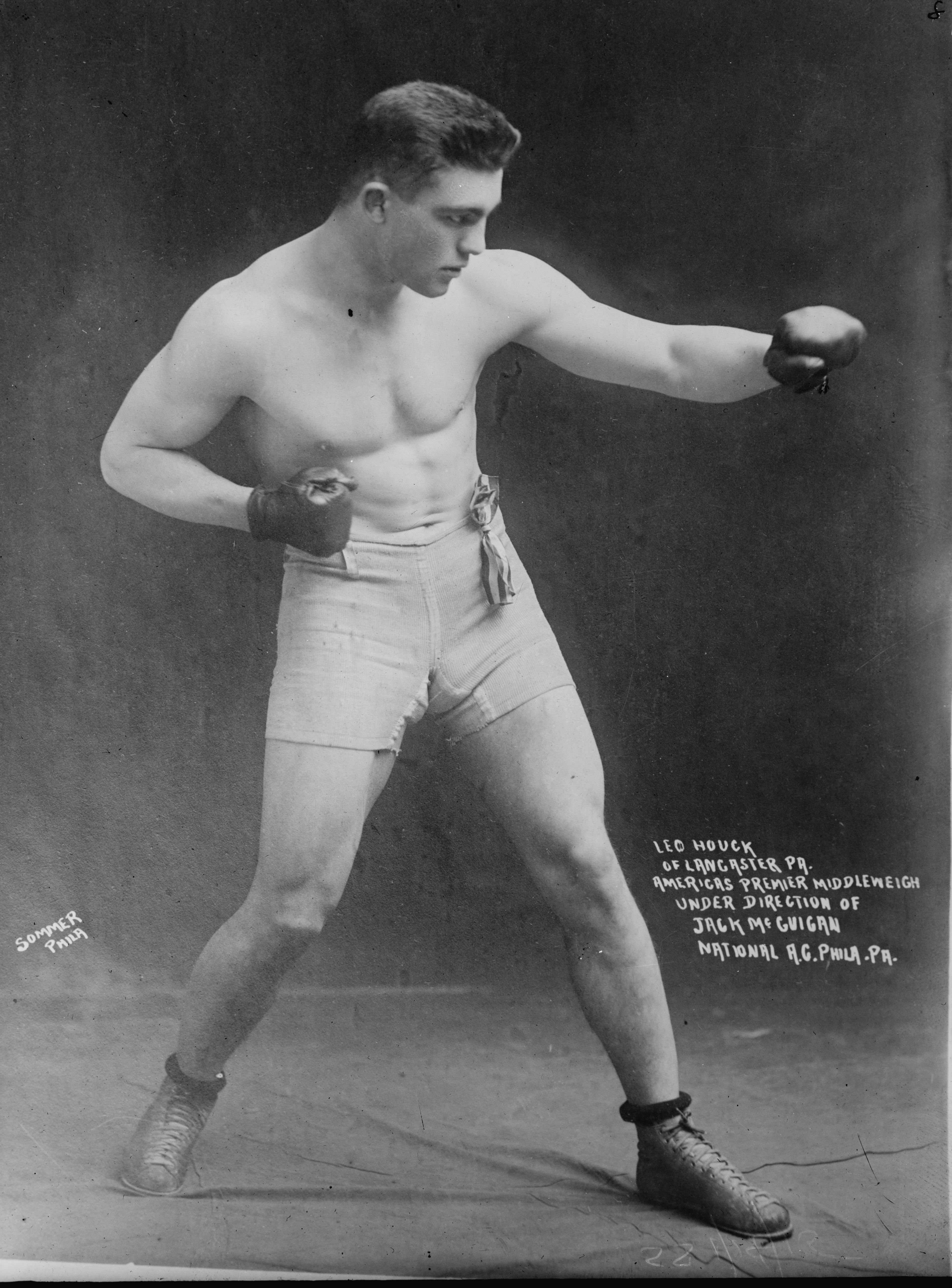 Bain News Service,, publisher. Leo Houck of Lancaster, Pa., America's premier middleweigh under direction of Jack McGuigan, National A.C., Phila, PA 1915 Jan. 14 (date created or published later by Bain) 1 negative : glass ; 5 x 7 in. or smaller. Notes: Title and date from data provided by the Bain News Service on the negative. Forms part of: George Grantham Bain Collection (Library of Congress). Format: Glass negatives. Repository: Library of Congress, Prints and Photographs Division, Washington, D.C. 20540 USA, General information about the Bain Collection is available at Higher resolution image is available (Persistent URL): Call Number: LC-B2- 3360-8-x